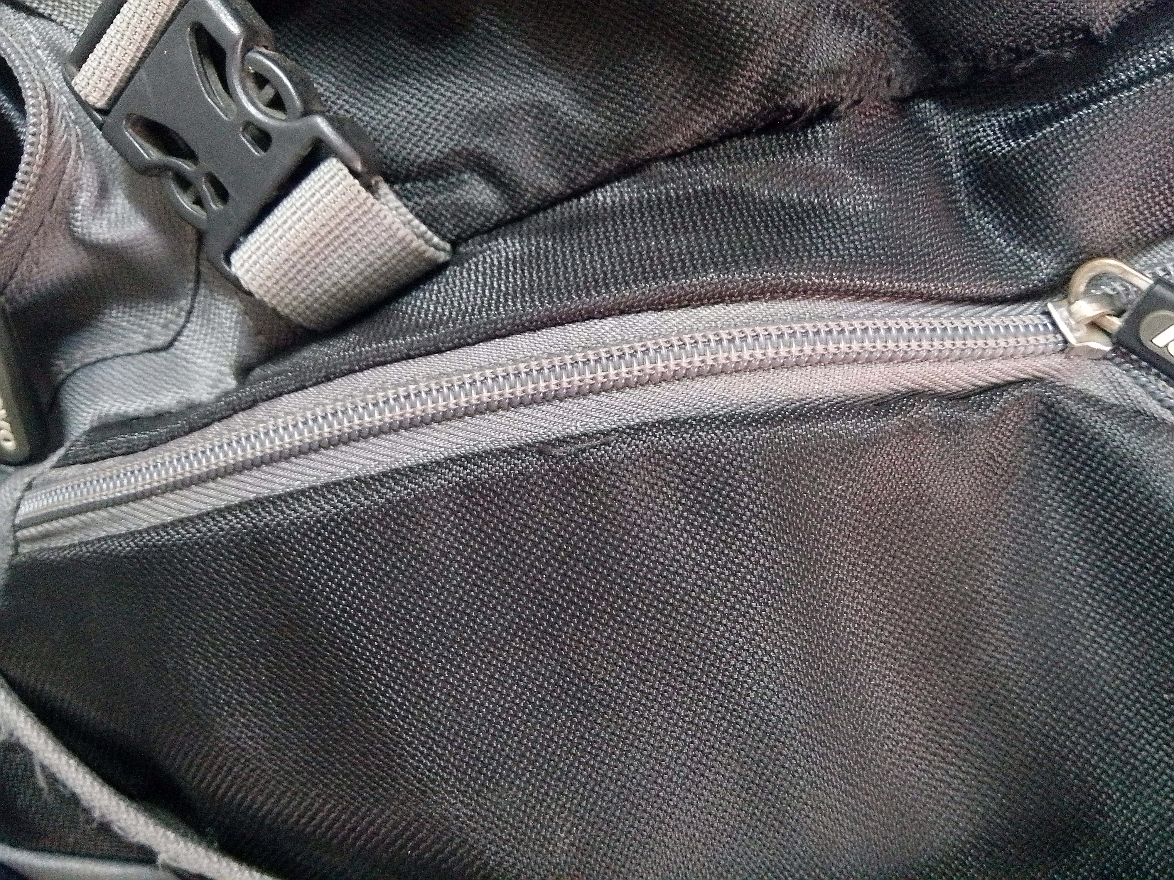 zip is a tool for joining two pieces of a cloth or acting a opener for bags.